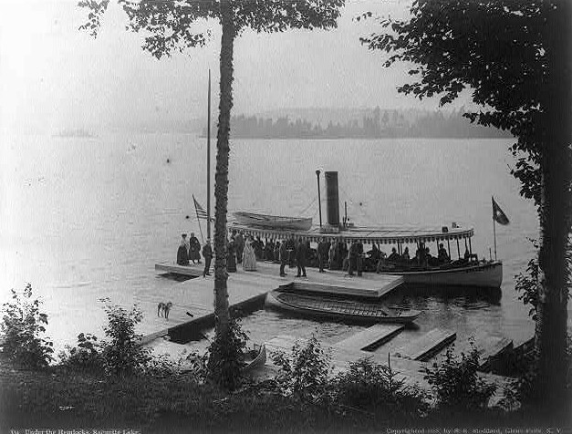 Under the hemlocks, Raquette Lake. Crowd on boat and pier in foregrd., Adirondack Mts., N.Y.